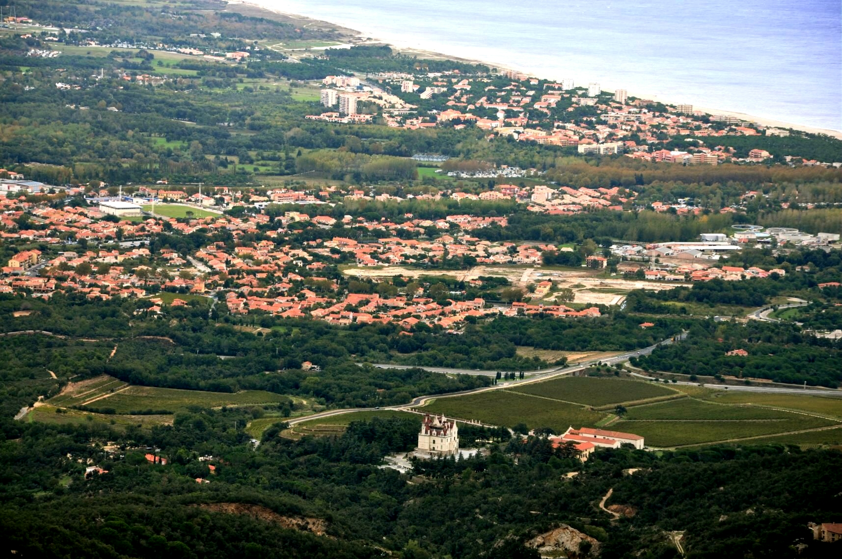 Argelès-sur-Mer with Château Valmy in the foreground seen from Tour de Massane